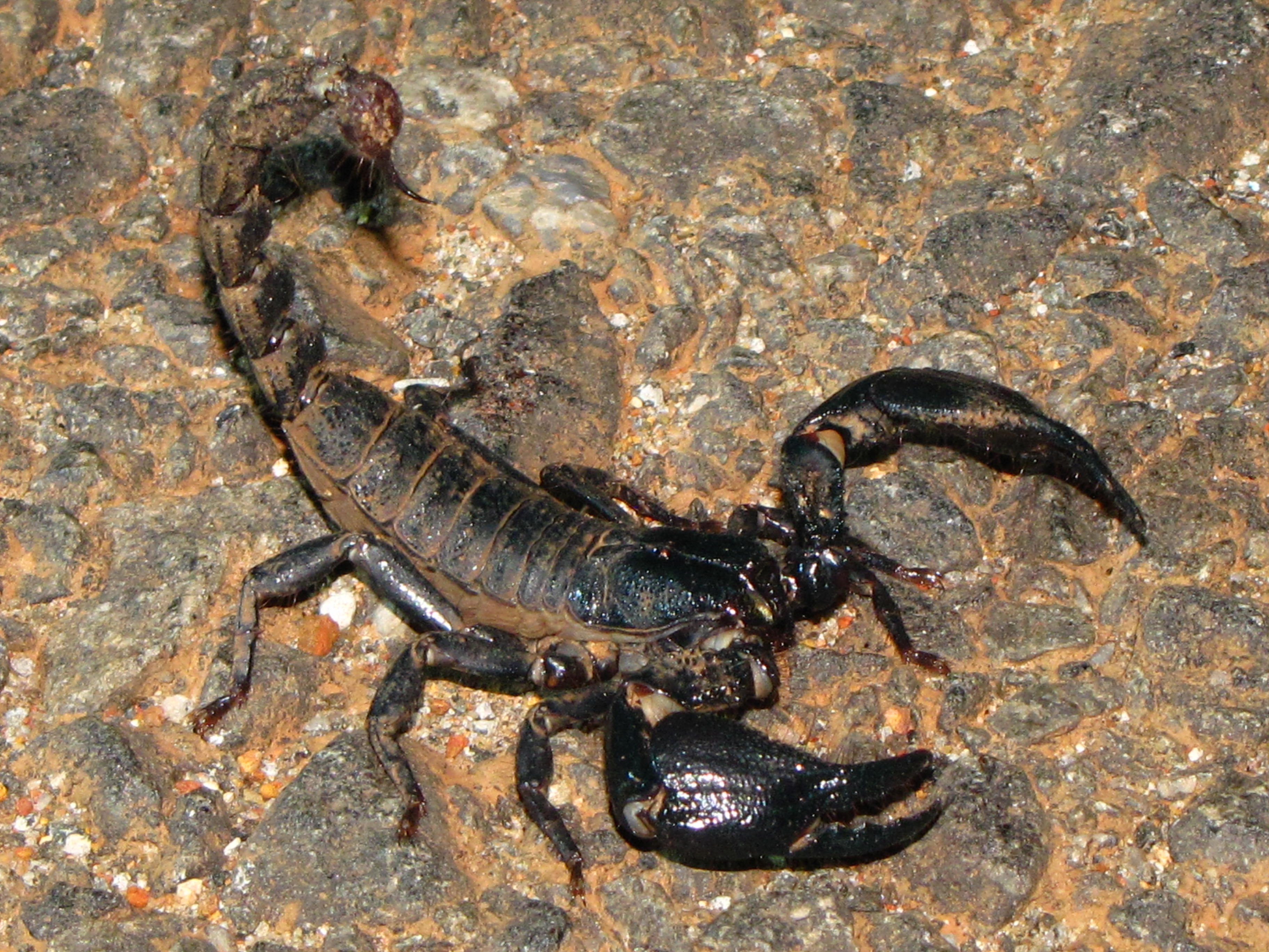 Armed to Kill